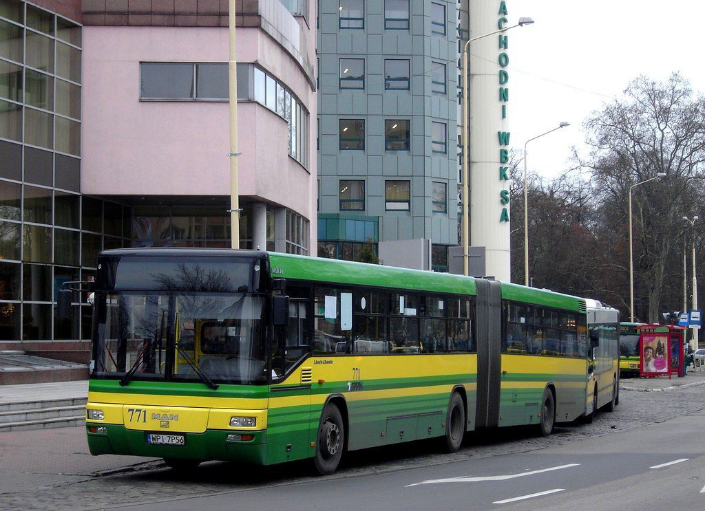 MAN SG313 Lion's Classic G (#771) owned by SPPK on Plac Rodła in Szczecin, Poland. Built 2005.